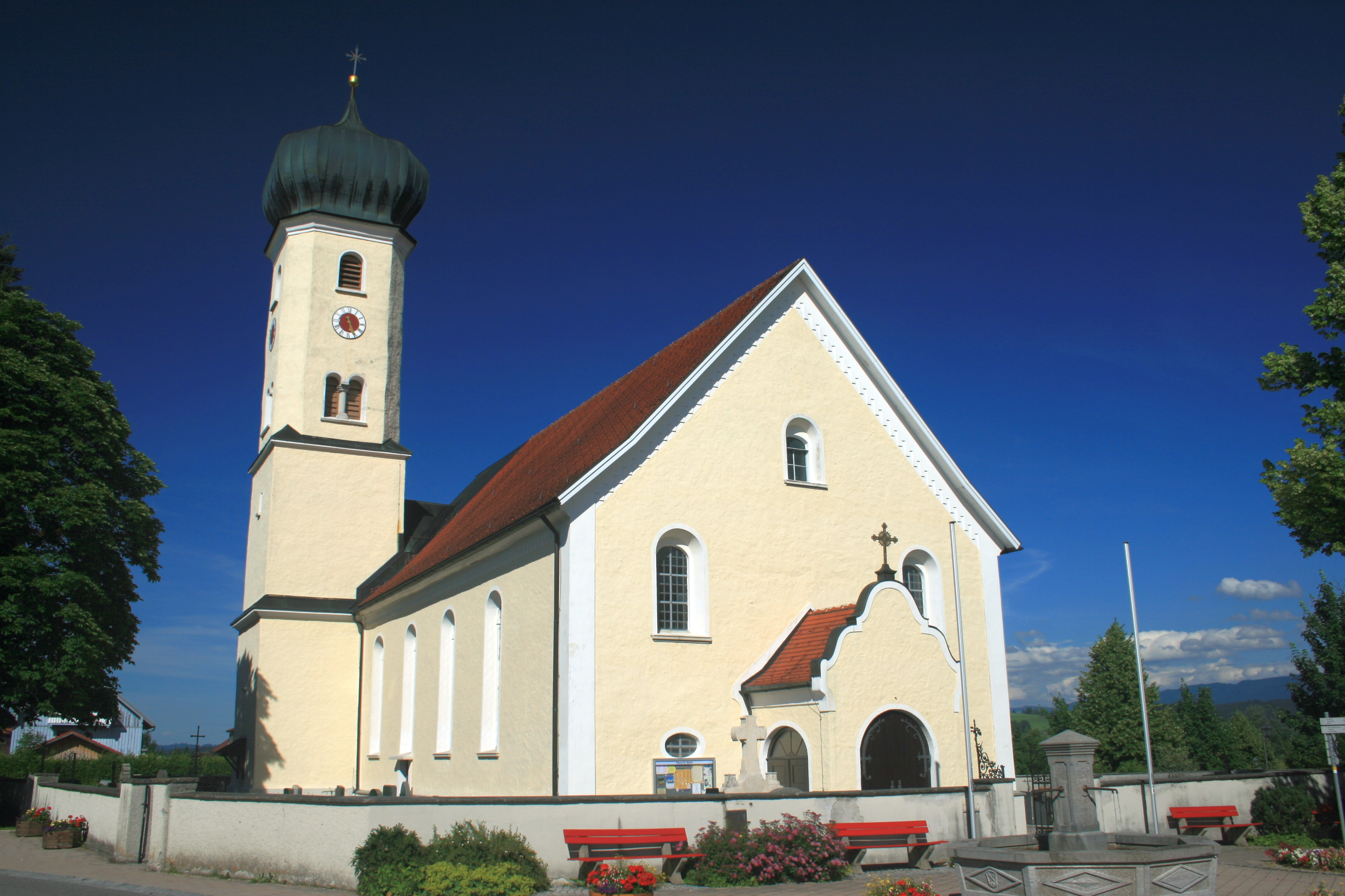 Baroque Church St. Martin in Oberreute, Germany